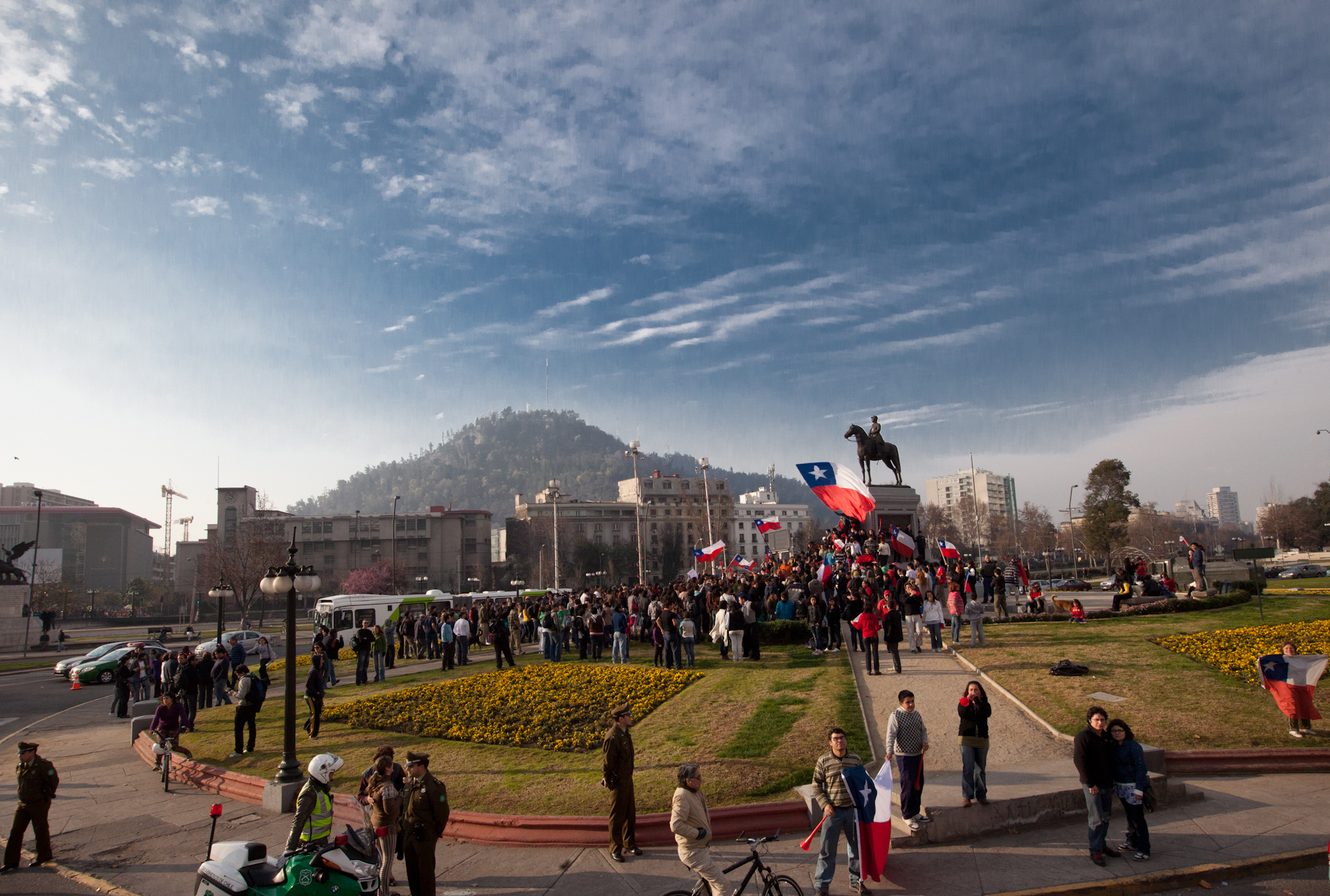 Chile celebrates at Plaza Italia, the news that the 33 miners trapped 700 meters in the Atacama Rigion are all alive!